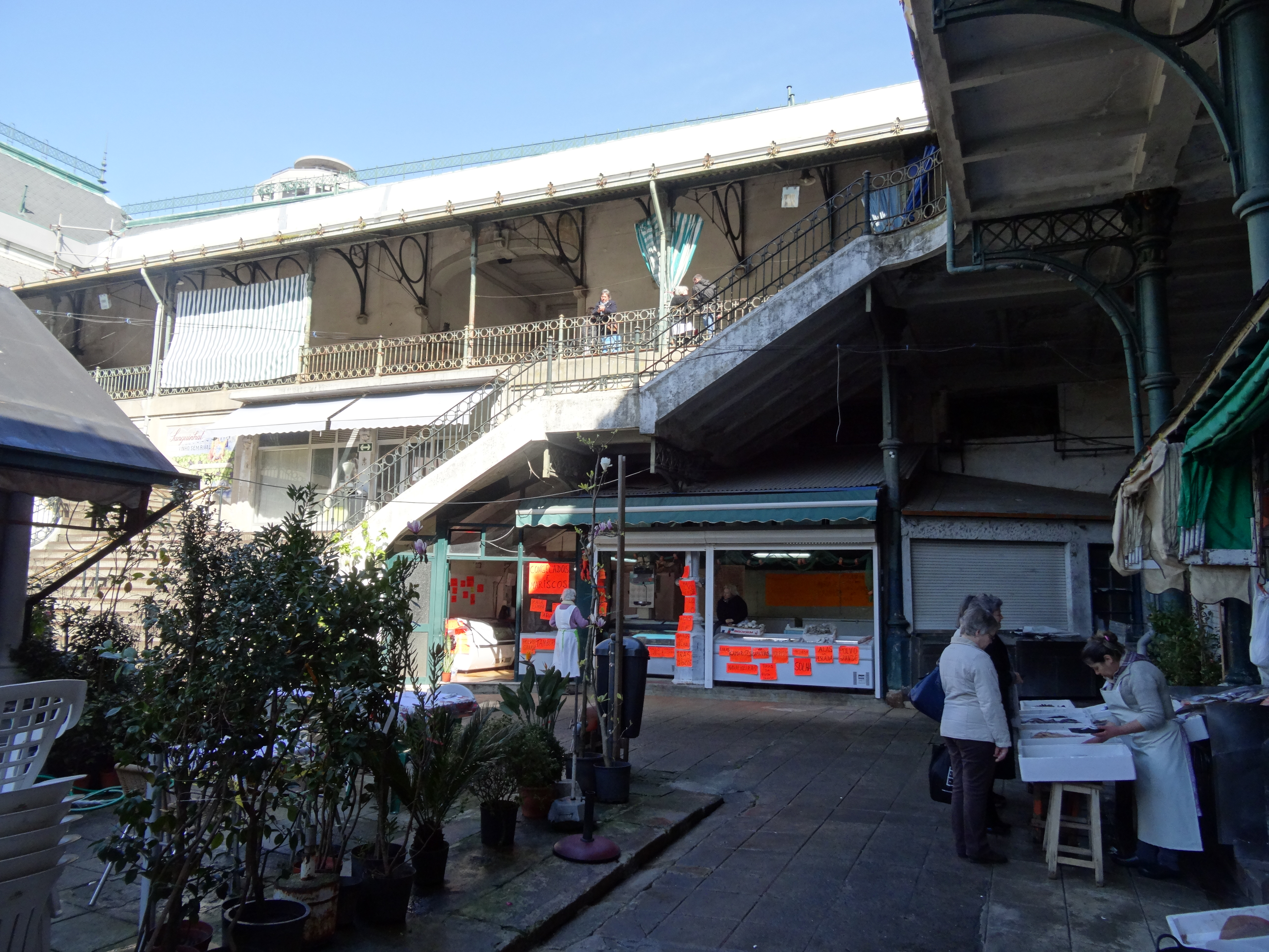 Porto: Bolhao Market